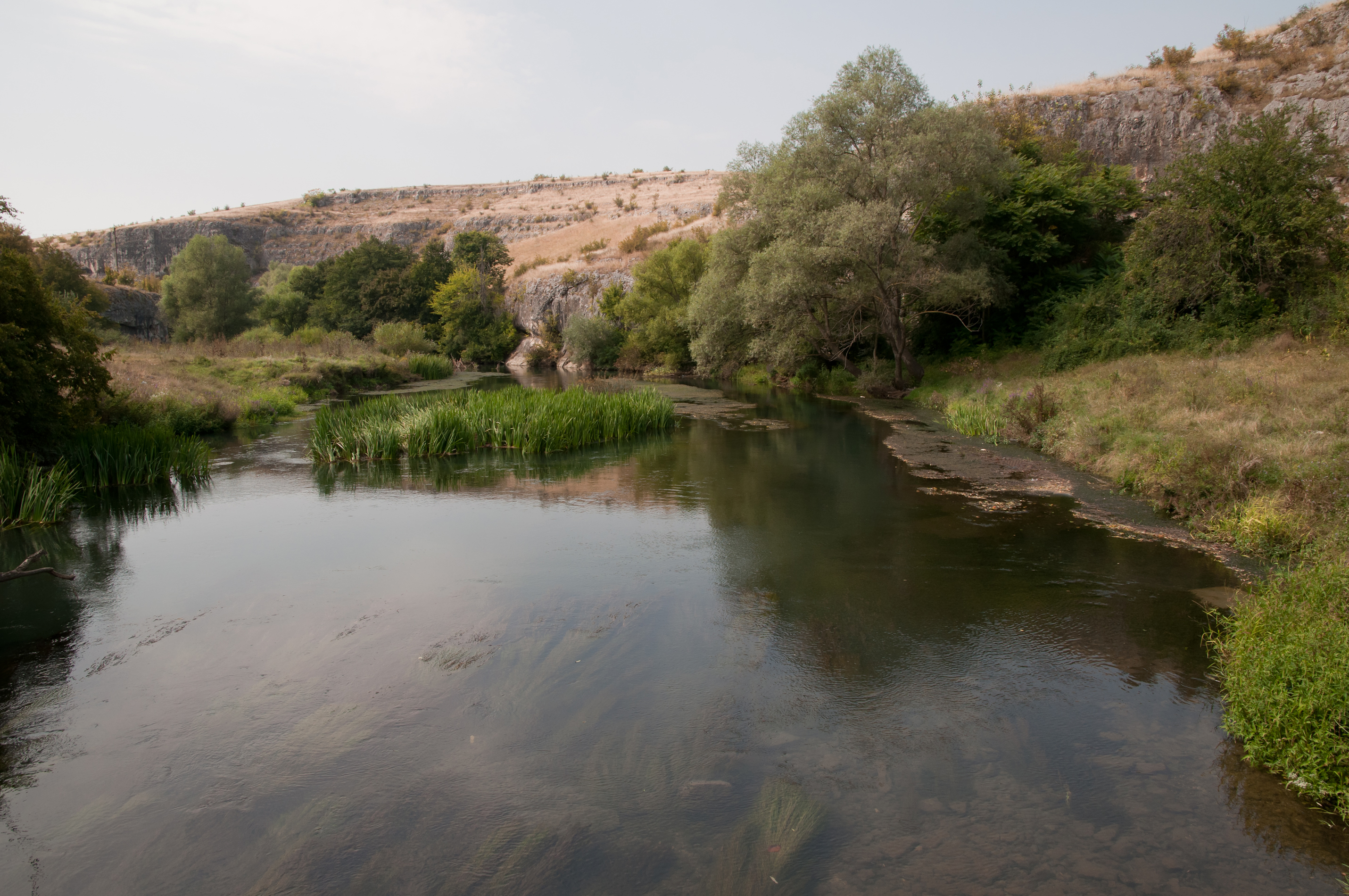 Zlatna Panega River at „Panega Nature Park“ near the town of Lukovit, Bulgaria.